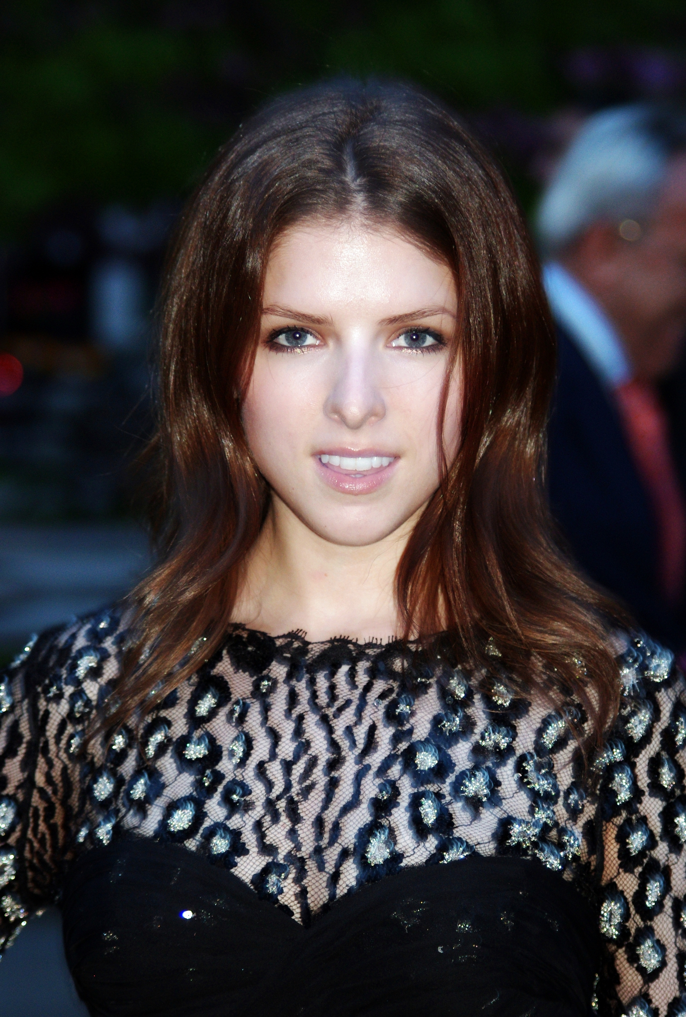 Anna Kendrick at the Vanity Fair party celebrating the 10th anniversary of the Tribeca Film Festival.